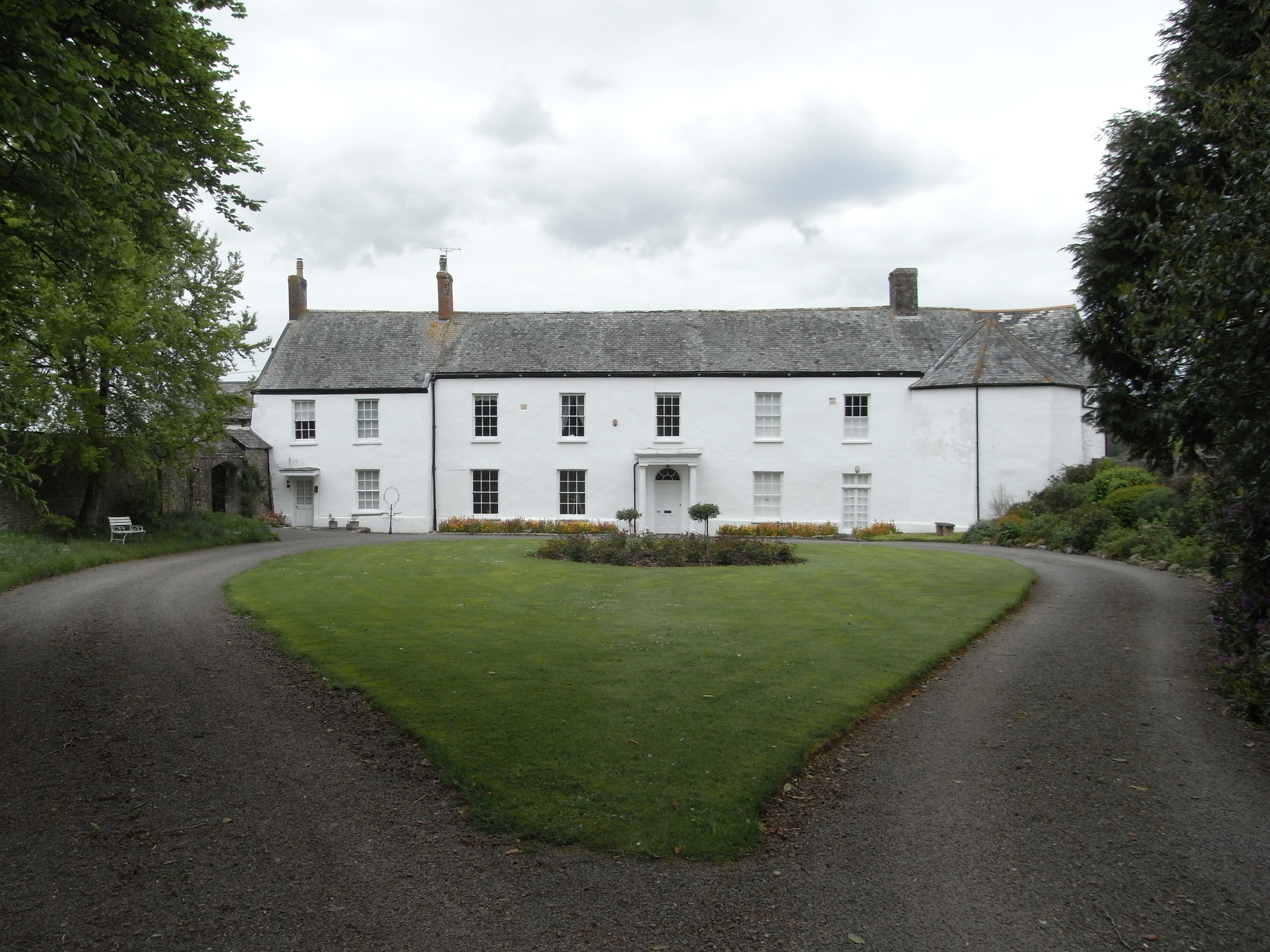 Umberleigh House, Atherington parish, Devon. Formerly the manor house of the manor of Umberleigh